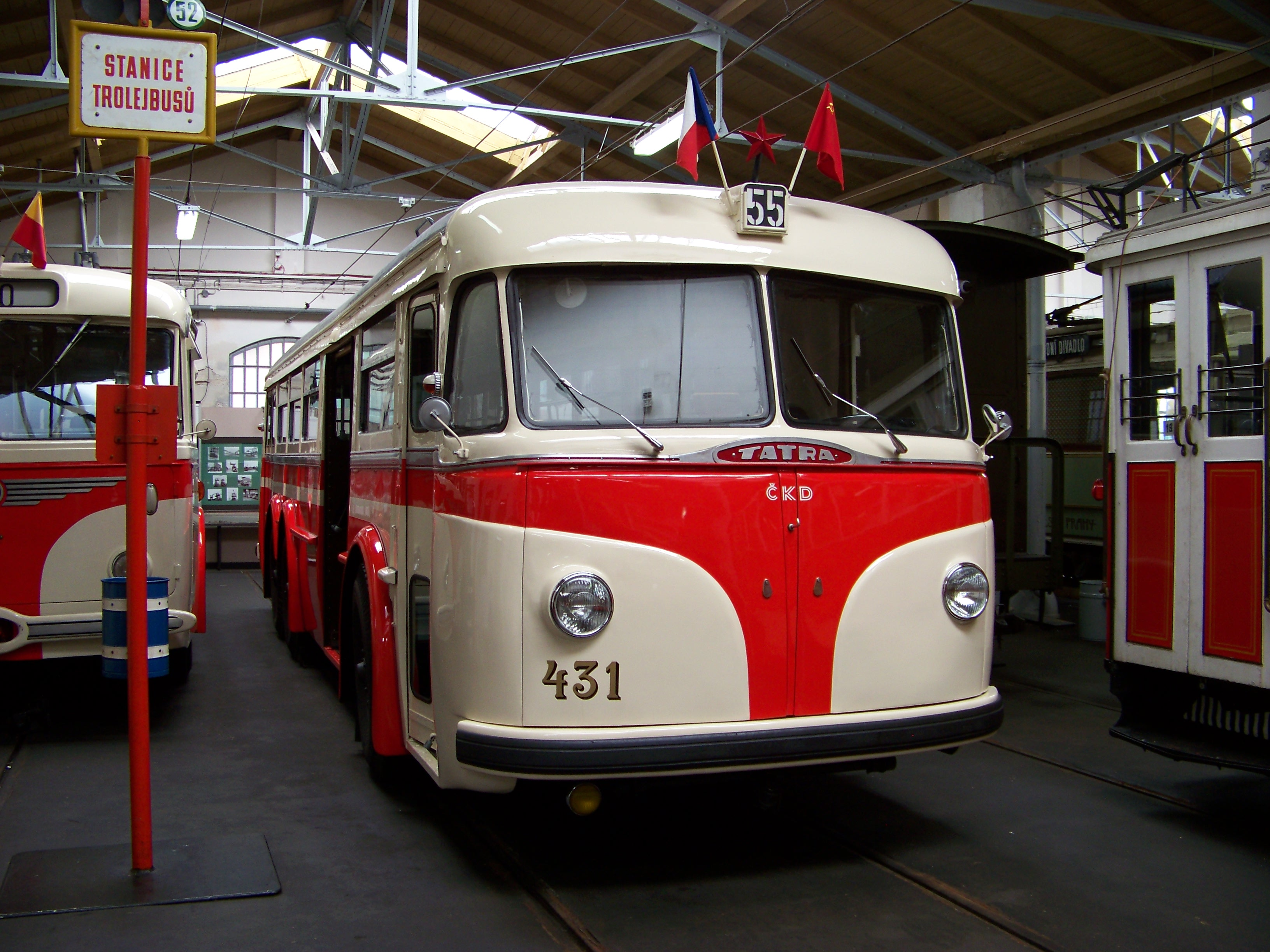 Prague-Střešovice, Czech Republic. Střešovice tram depot, Public Transport Museum. A trolleybus.